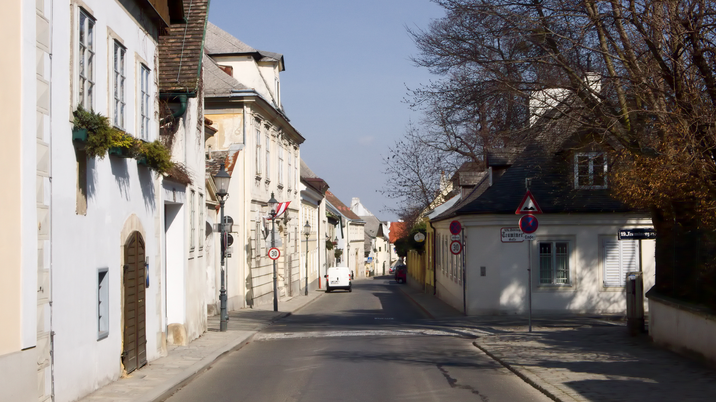 Kahlenberger Straße in Vienna Döbling